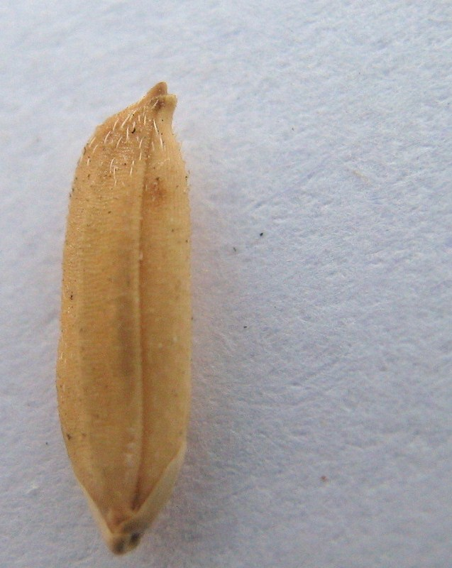 a grain of paddy from the state of Tamilnadu, India (nation)